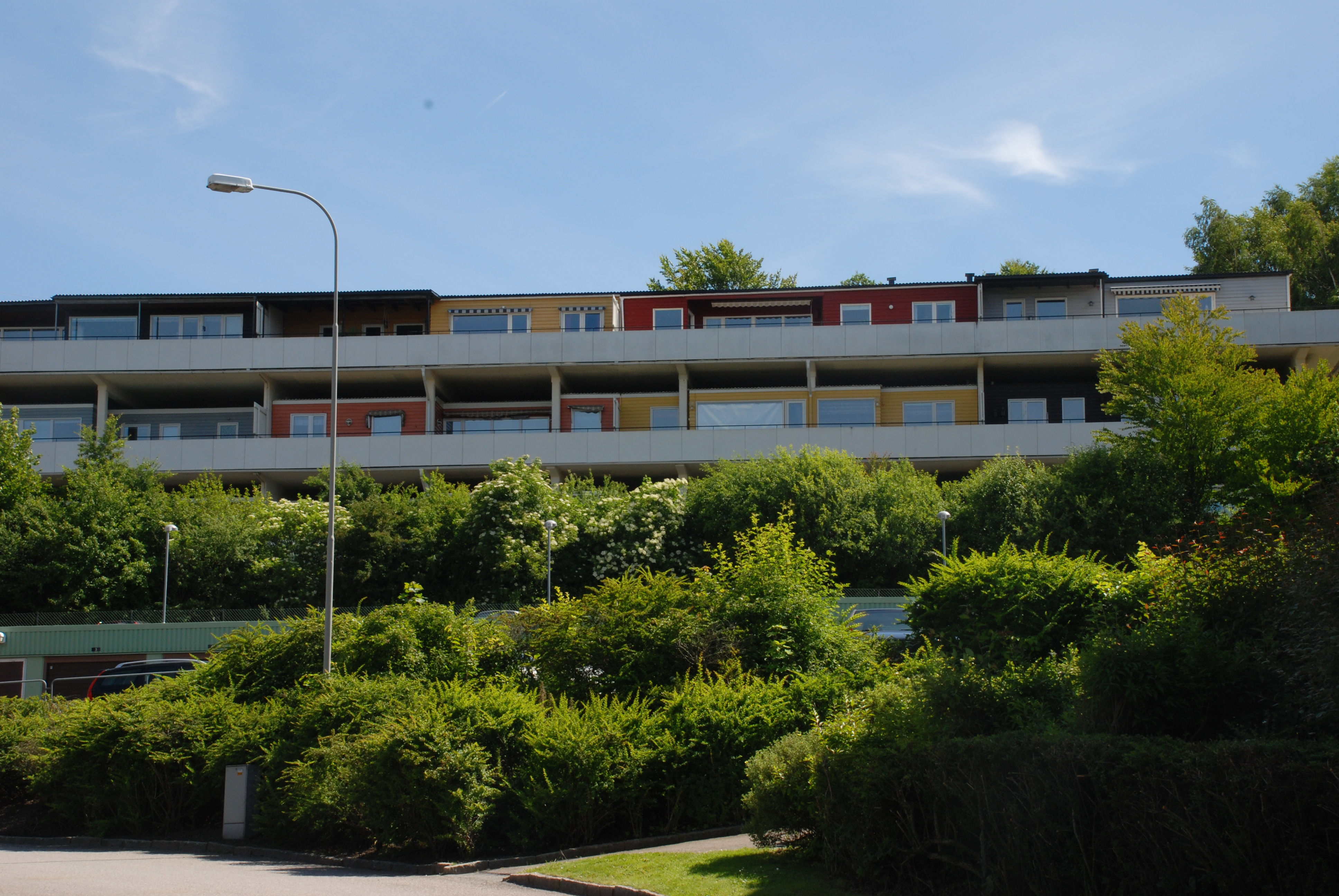 Däckshus in city quarter Kallebäck in Göteborg.